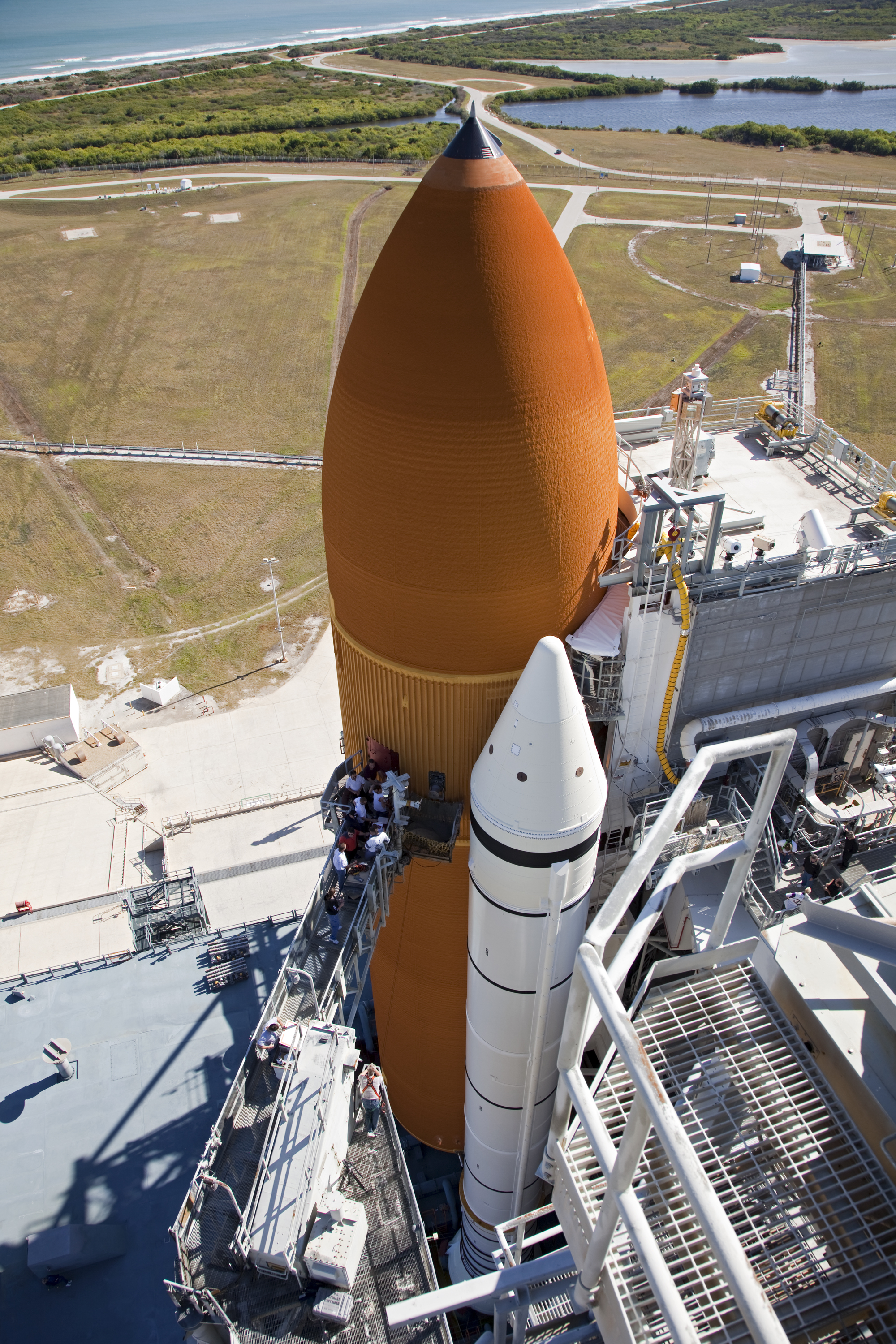 On Launch Pad 39A at NASA's Kennedy Space Center in Florida, a new 7-inch quick disconnect is installed on the ground umbilical carrier plate (GUCP) of space shuttle Discovery's external fuel tank. A hydrogen gas leak at that location during tanking for Discovery's STS-133 mission to the International Space Station caused the launch attempt to be scrubbed Nov. 5. The GUCP is the overboard vent to the pad and the flame stack where the excess hydrogen is burned off. For more information on STS-133, visit